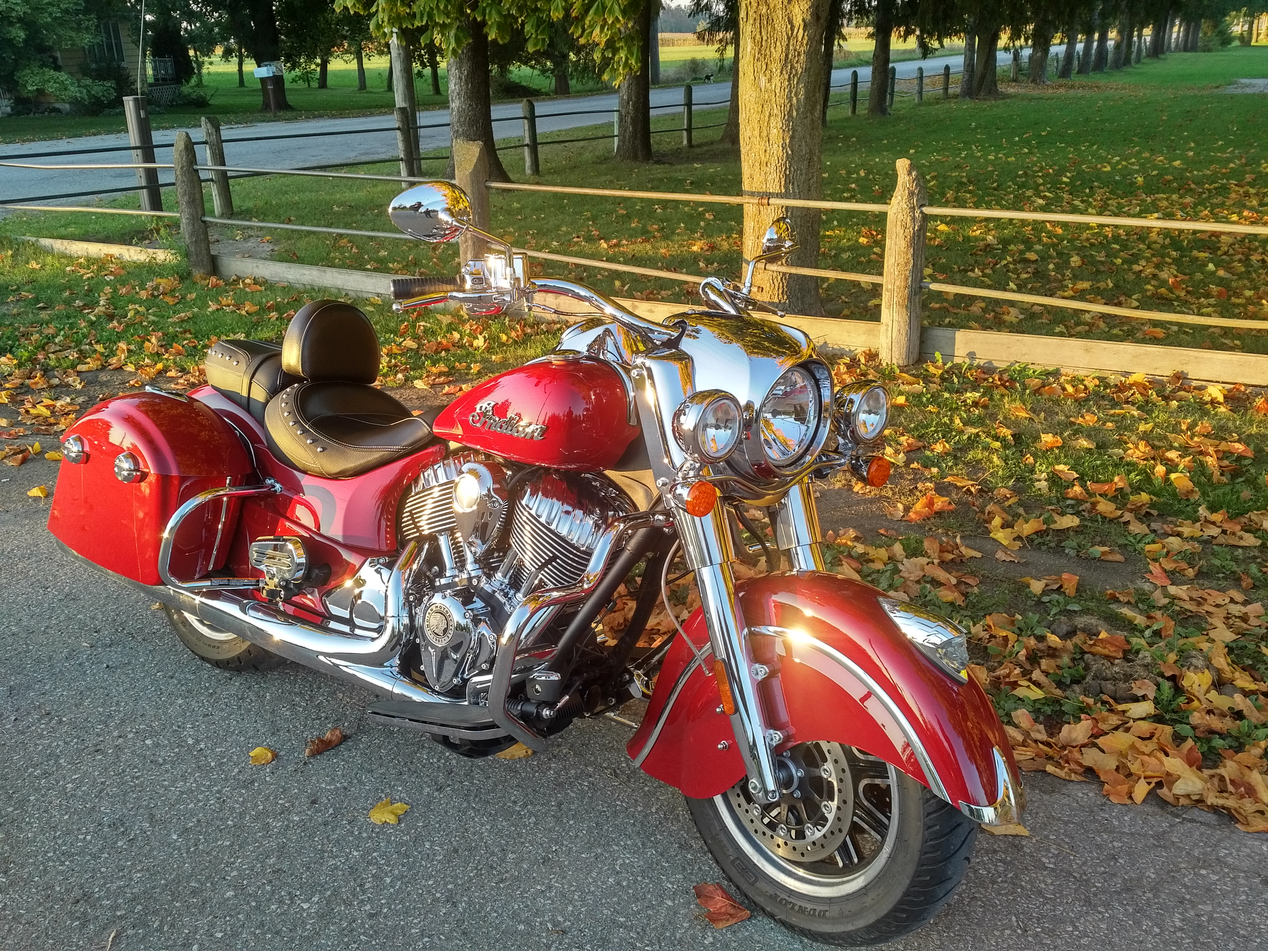 2016 Indian Springfield - Early fall ride near Elmira, Ontario, Canada